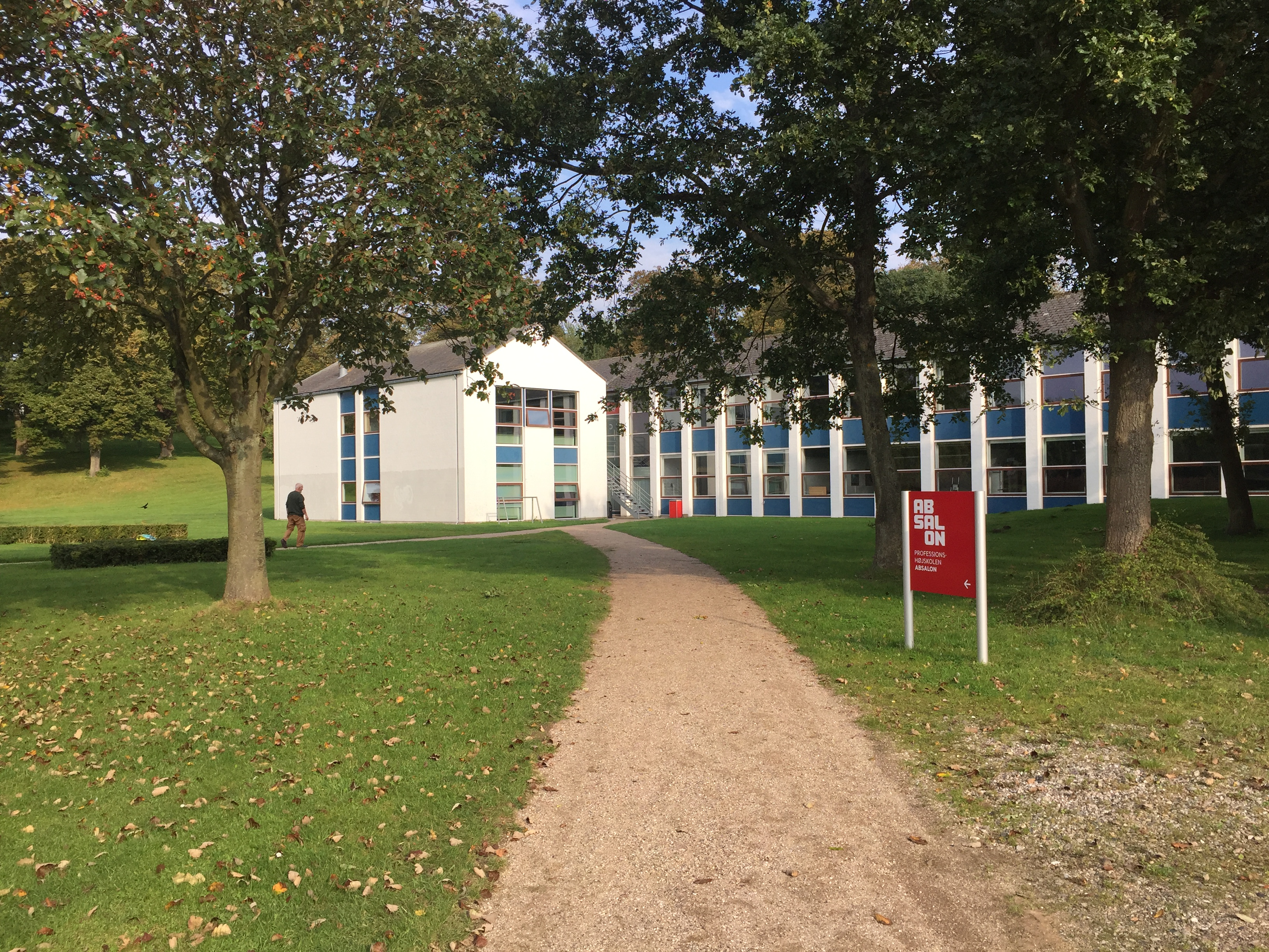 Campus Kalundborg, University College Absalon.